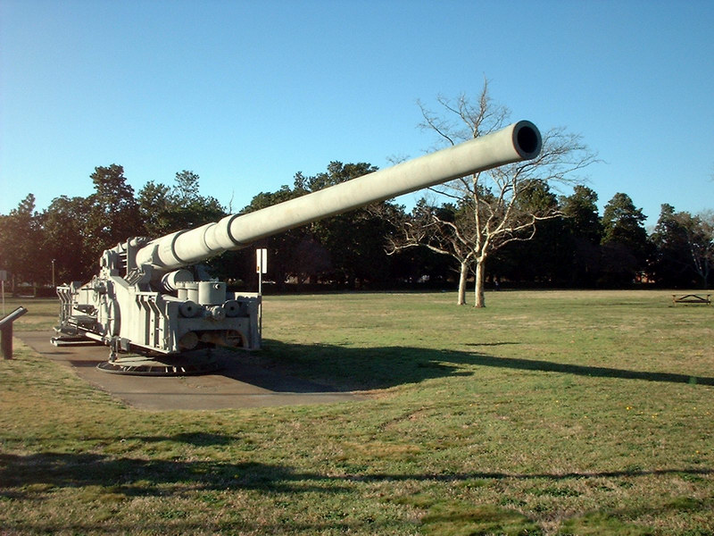 280 mm 'Atomic Annie' at Virginia War Museum, March 14, 2006